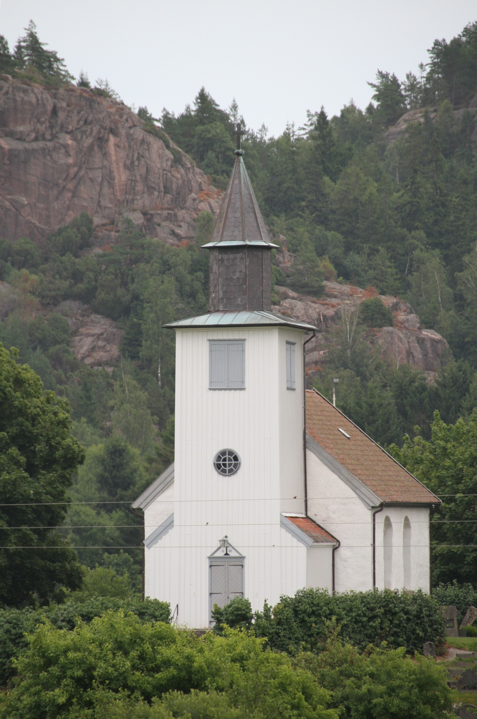 Bärfendals kyrka finns langt vest i Munkedals kommun, Västra Götaland (Bohuslen)